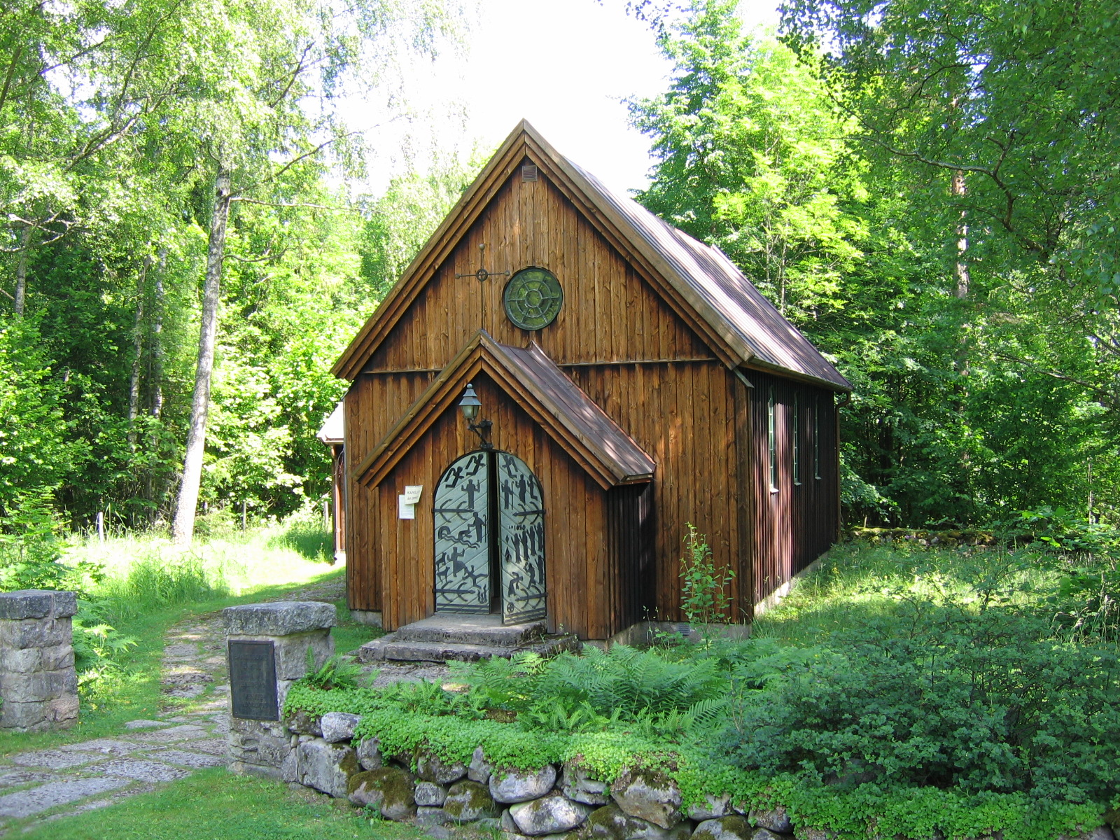 church